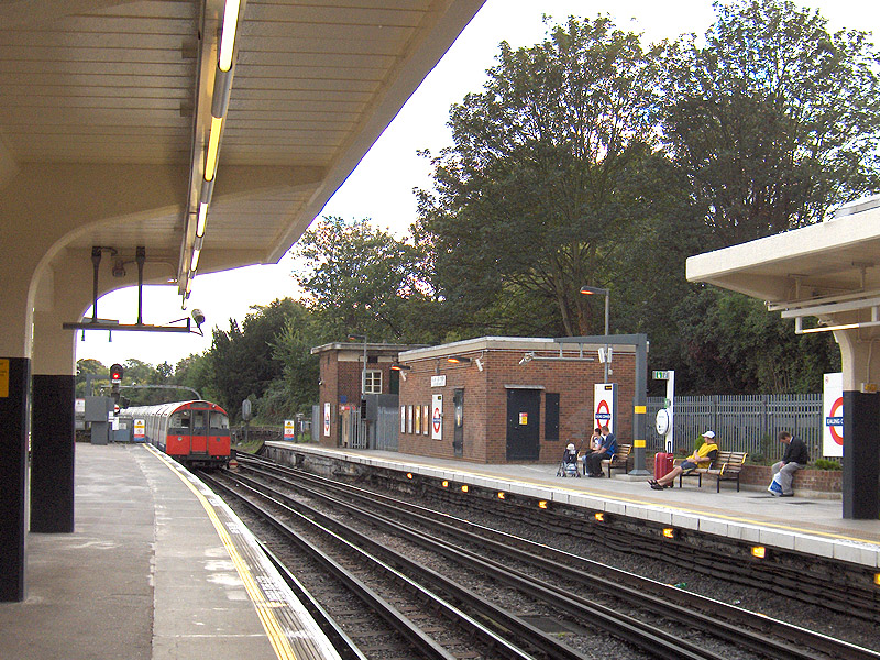 Ealing Common underground station platforms, southbound Piccadilly Line train departs (September 2006)